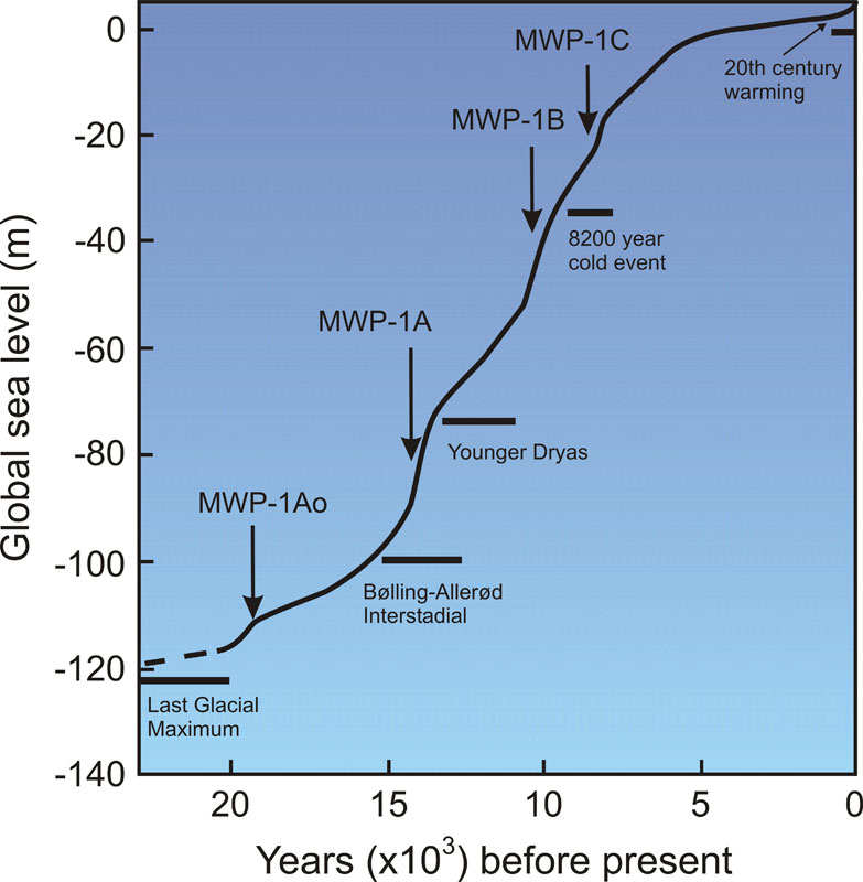 Generalized sea level rise curve since the last ice age showing recognizedmeltwater pulses (MWP).